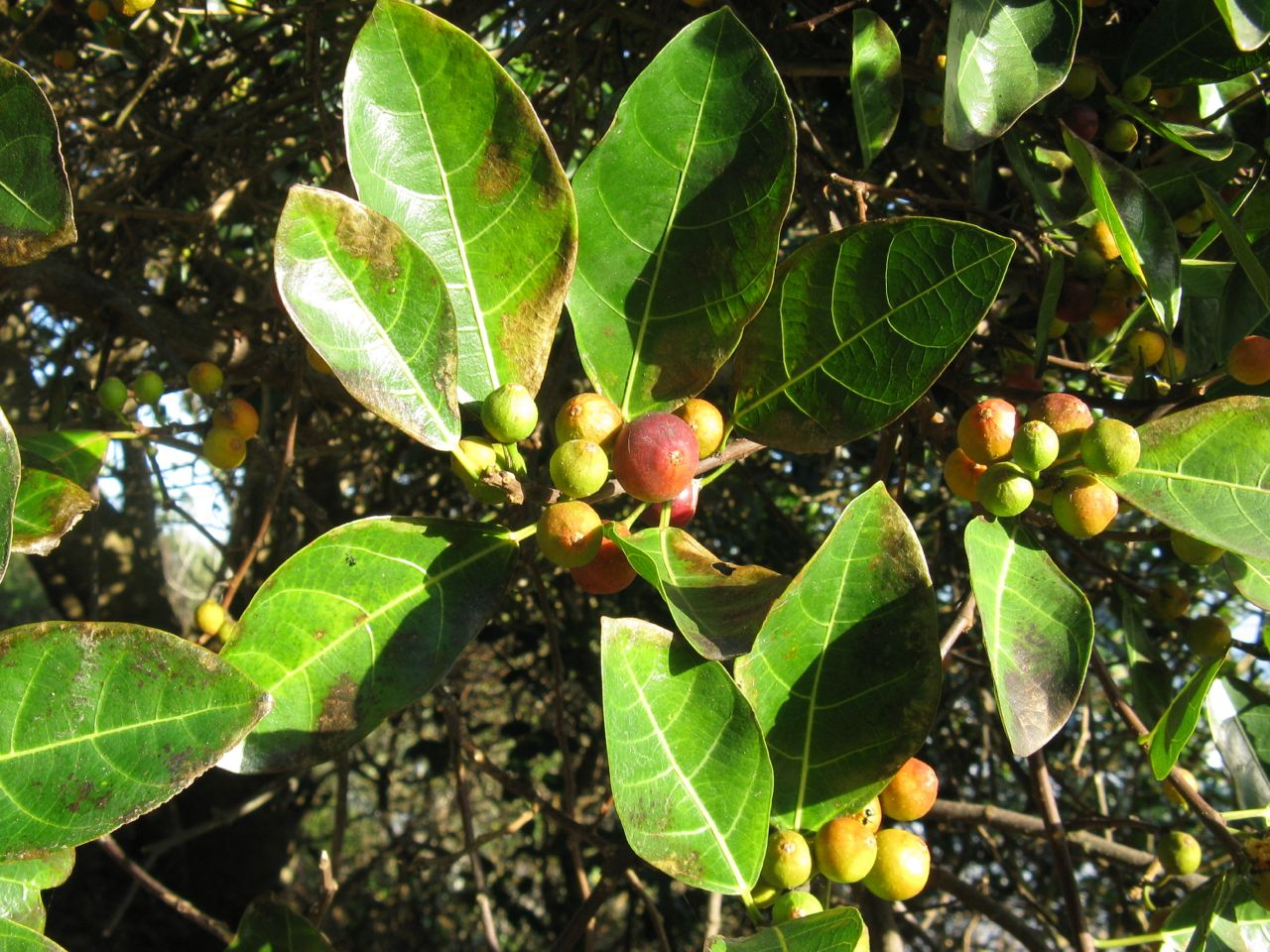 Port Macquarie, NSW, Australia